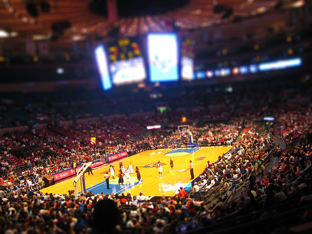 Madison Square Garden during a game between the New York Liberty and the Connecticut Sun